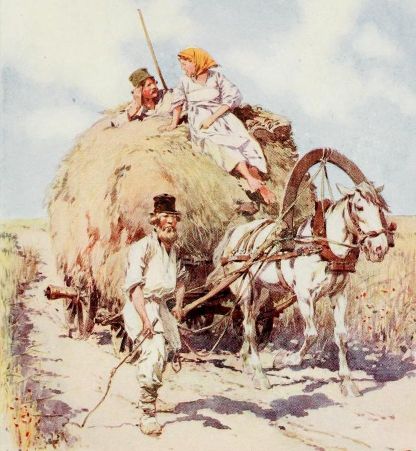 A summer's day in the country, c. 1913. Painted by Frédéric de Haenen